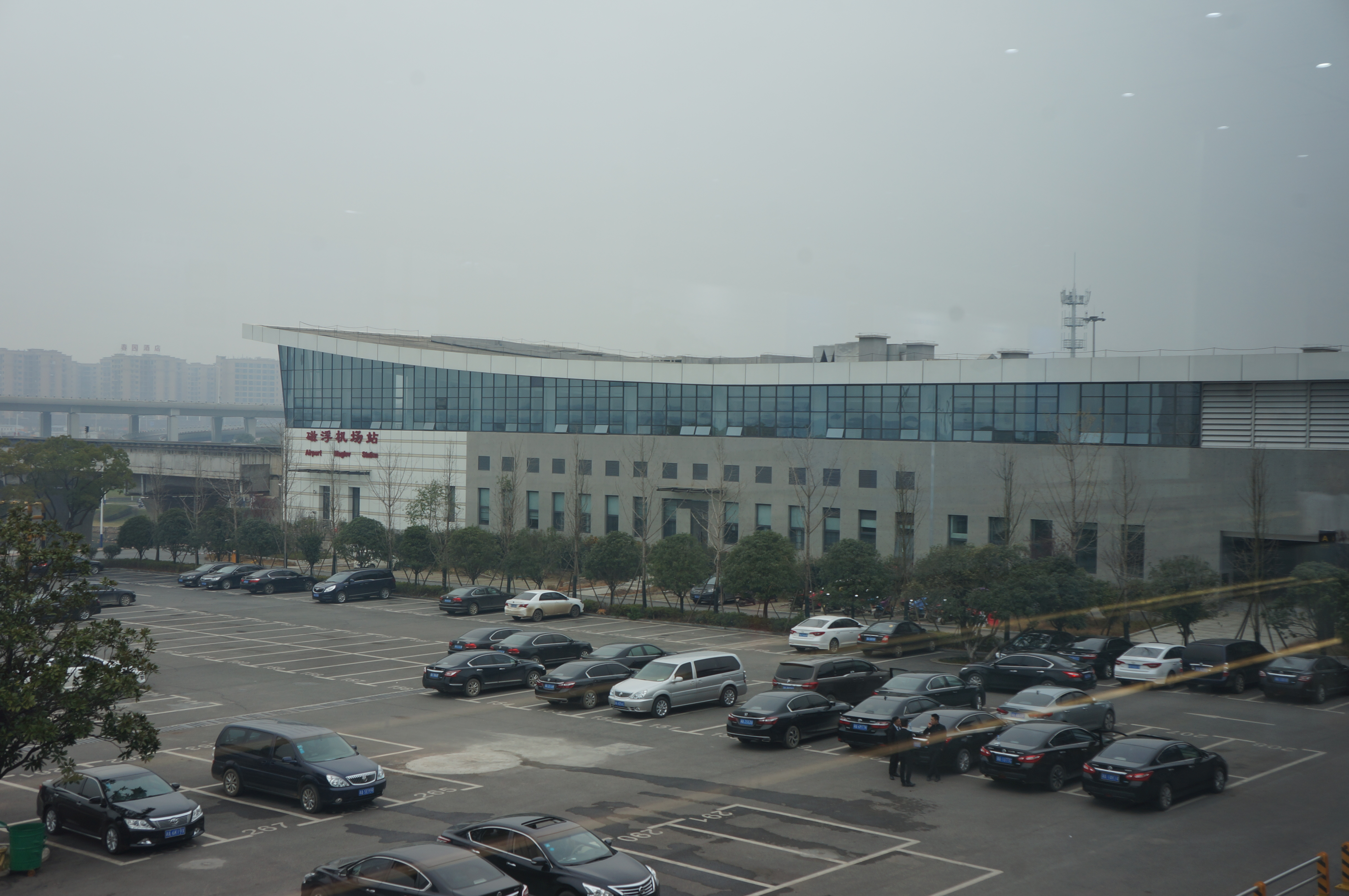 201712 Huanghua Airport Station